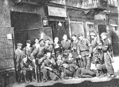 WarsawUprising: Group of soldiers from unit of Zdzisław Zołociński "Piotr" from "Czata 49" Battalion at Wolska Street by Karolkowa Street in Wola district on August 4, 1944.